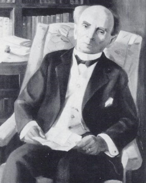 Swedish preacher and hymn composer E. August Skogsbergh.